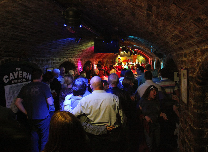 Inside the Cavern Club in Liverpool during the International Beatle Week 2010 (you can also see a view from stage side on official site)